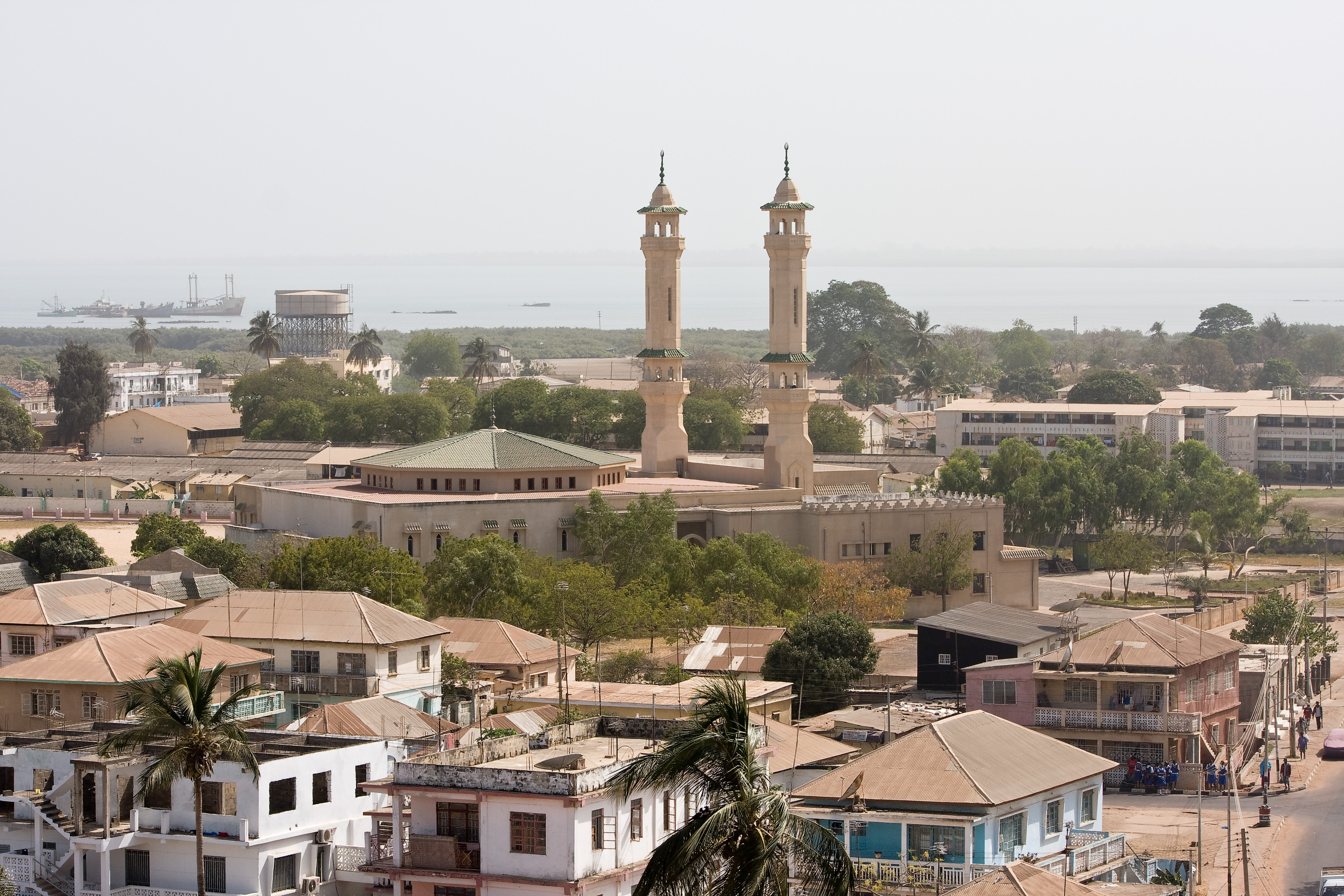 The big mosque in Banjul.